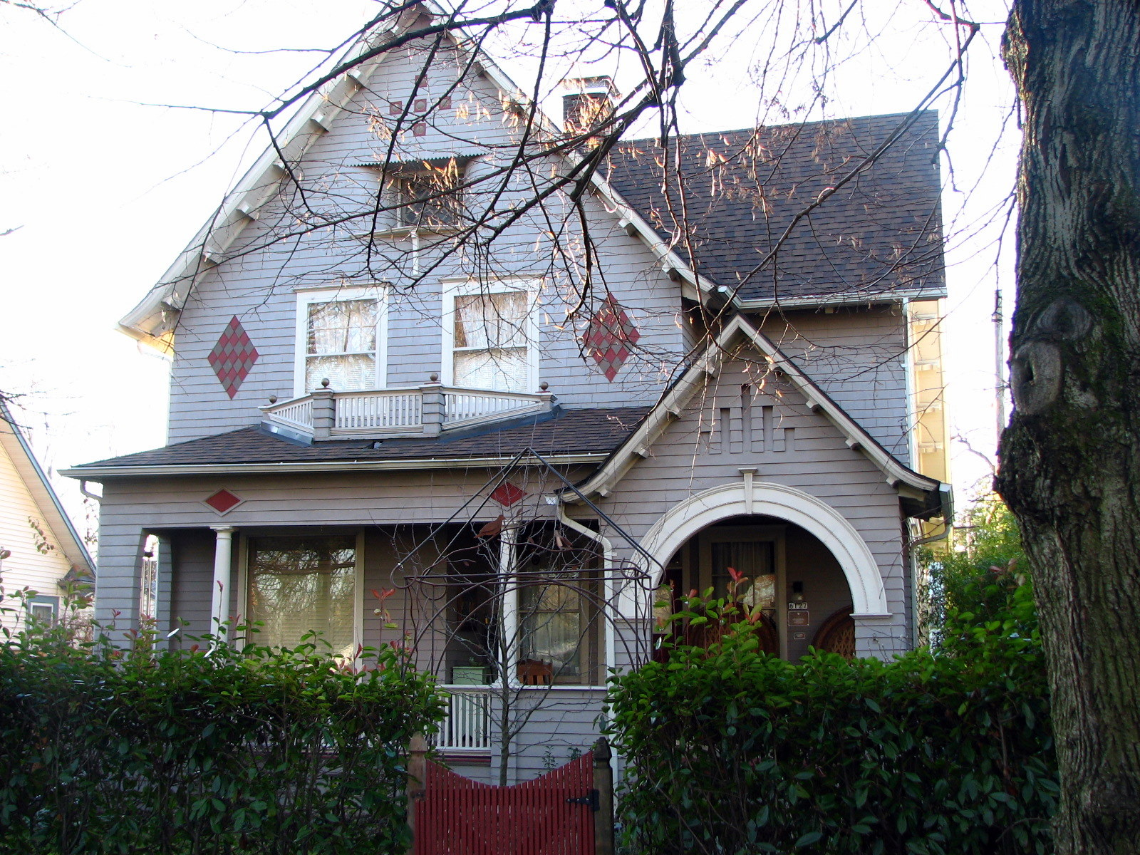 The historic Charles Crook House (built 1894), located at 6127 North Williams Avenue in Portland, Oregon, United States, is listed on the US National Register of Historic Places.